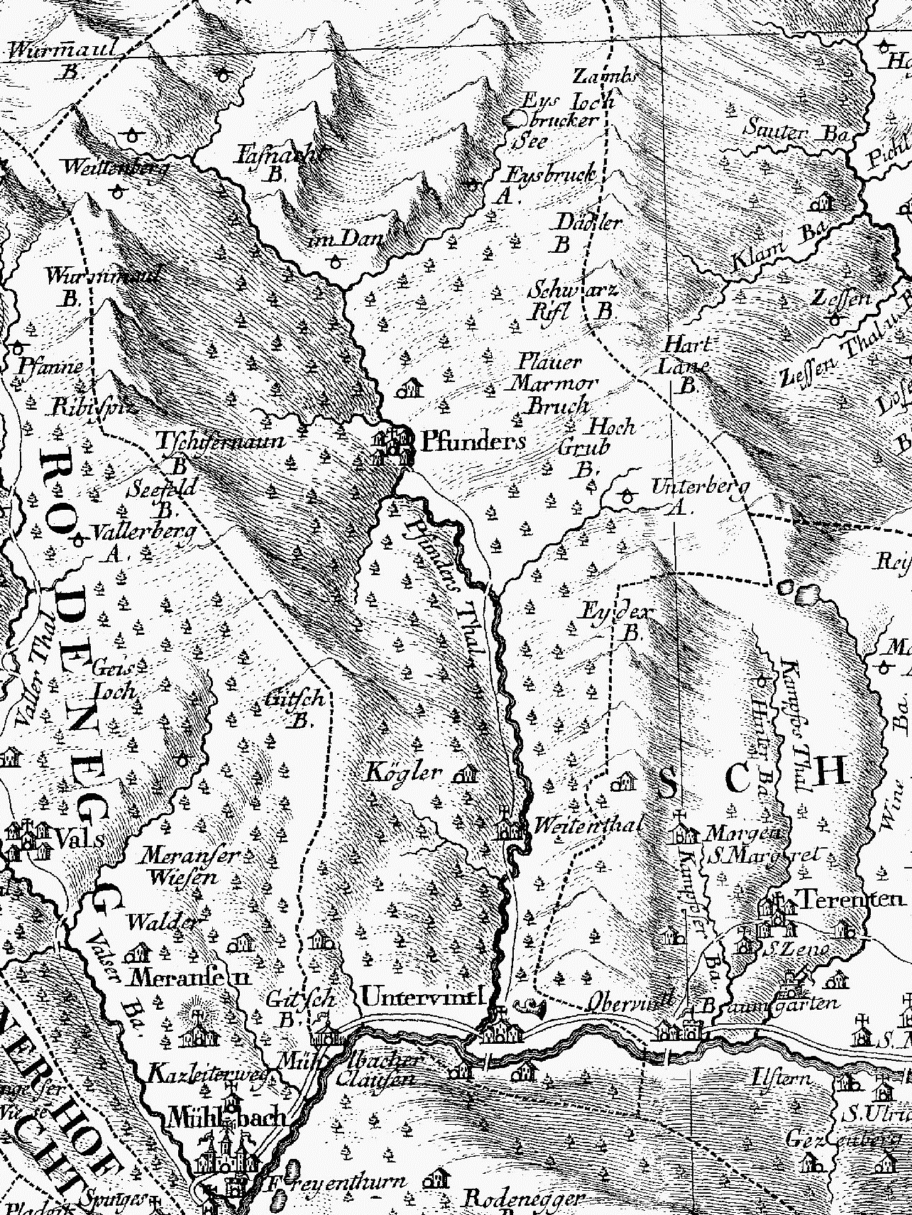 The area of the modern municipality of Vintl as shown by the Atlas Tyrolensis